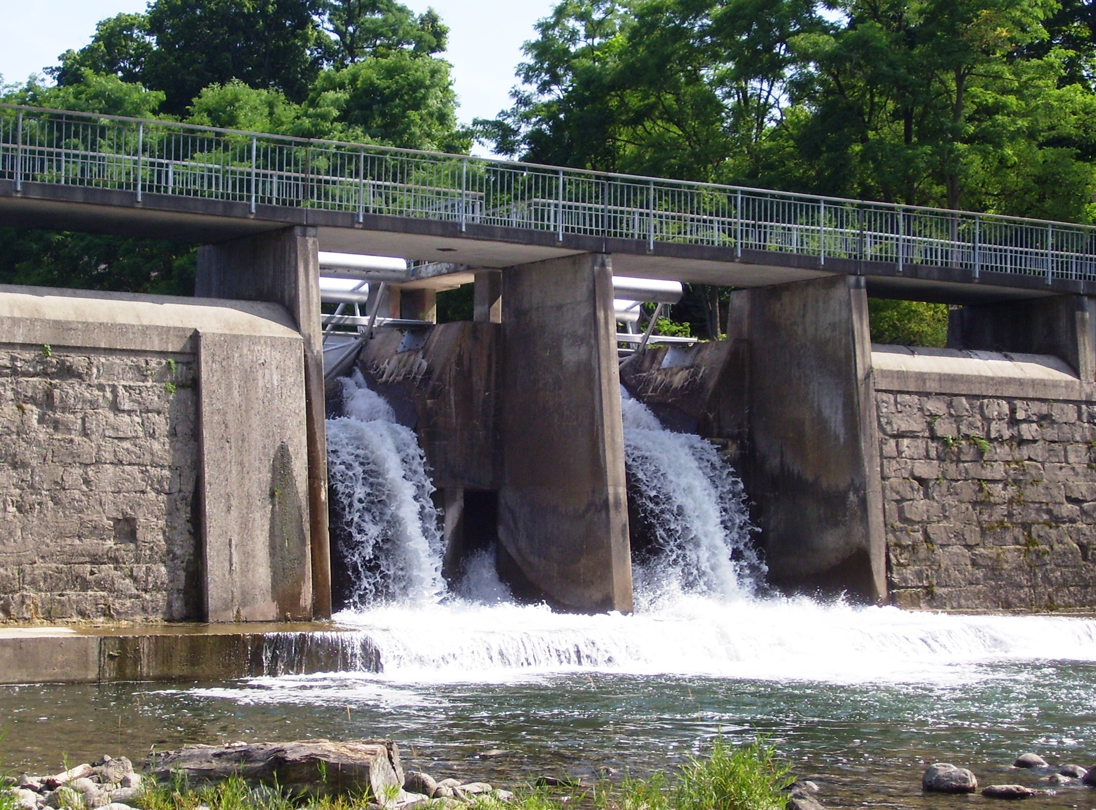 The Owasco Lake Outlet Dam (also known as State Dam) off of Miller Street in Auburn, New York lies across the Owasco Outlet (also called the Owasco River) which drains Owasco Lake, one of the Finger Lakes, into the the Seneca River. The dam is used to control the outflow of the lake and to prevent shoreline flooding; a minimum flow is required to assimilate waste water treatment effluent. Owasco Lake is the source of drinking water for the city, the Town of Owasco and 70% of Cayuga County. The masonry dam is 14 feet high and 258 feet long, with a maximum discharge of 5,792 cubic feet per second, and a capacity of 64,233 acre feet, with normal storage of 17,712 acre feet. The dam was completed in 1972. (Sources: [1], [2])